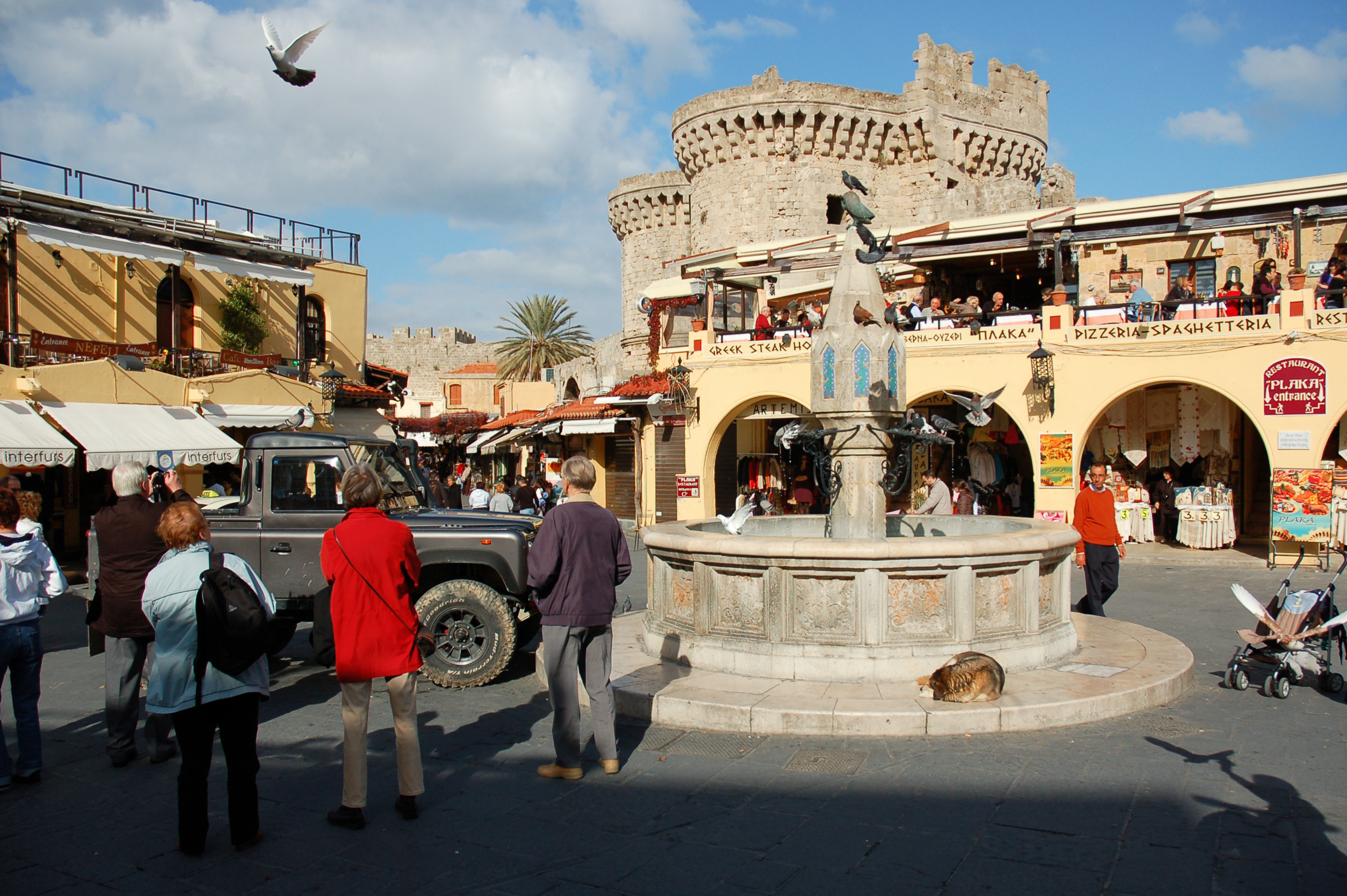 Ippokratous Square , Plateia Ippokratous, the Old Town (World Heritage City, UNESCO). Against the background of The Citadel of Rhodes. Rhodes, the island of Rhodes, the Dodecanese, Greece.